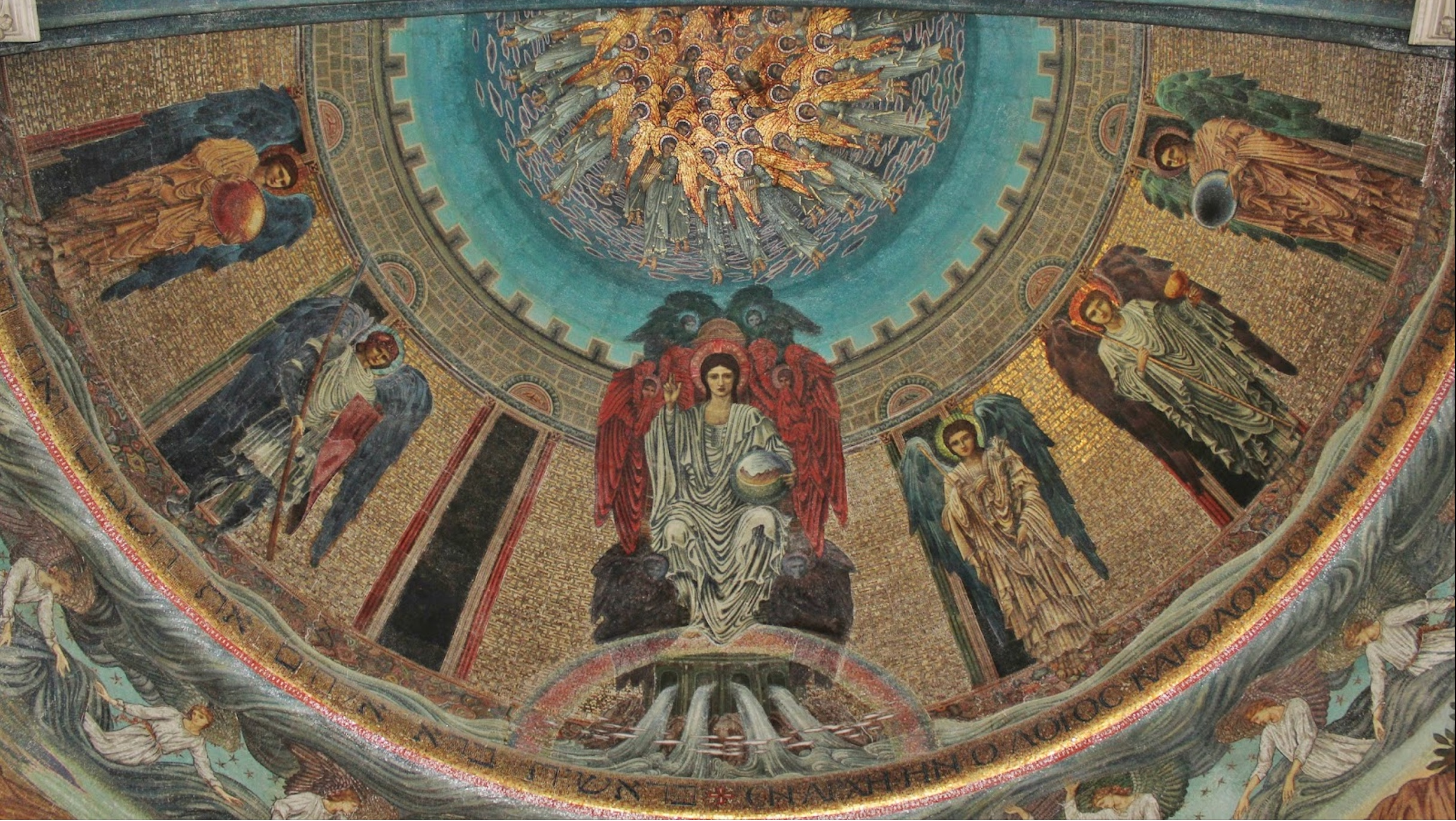 Christ Enthroned in the Heavenly Jerusalem: Christ is flanked by archangels, with an empty space representing Lucifer's vacated position. From left to right, the five archangels are: Uriel holds the sun; Michael is a glorious figure in armour; Gabriel bears the lily of the Annunciation; Chemuel (Camael), the angel of the Sangreal, stands next him with the sacred cup; and Zophiel (Jophiel), to his left, holds the moon. Mosaic at the St Paul's Within the Walls, an Episcopal church in Rome, Italy.